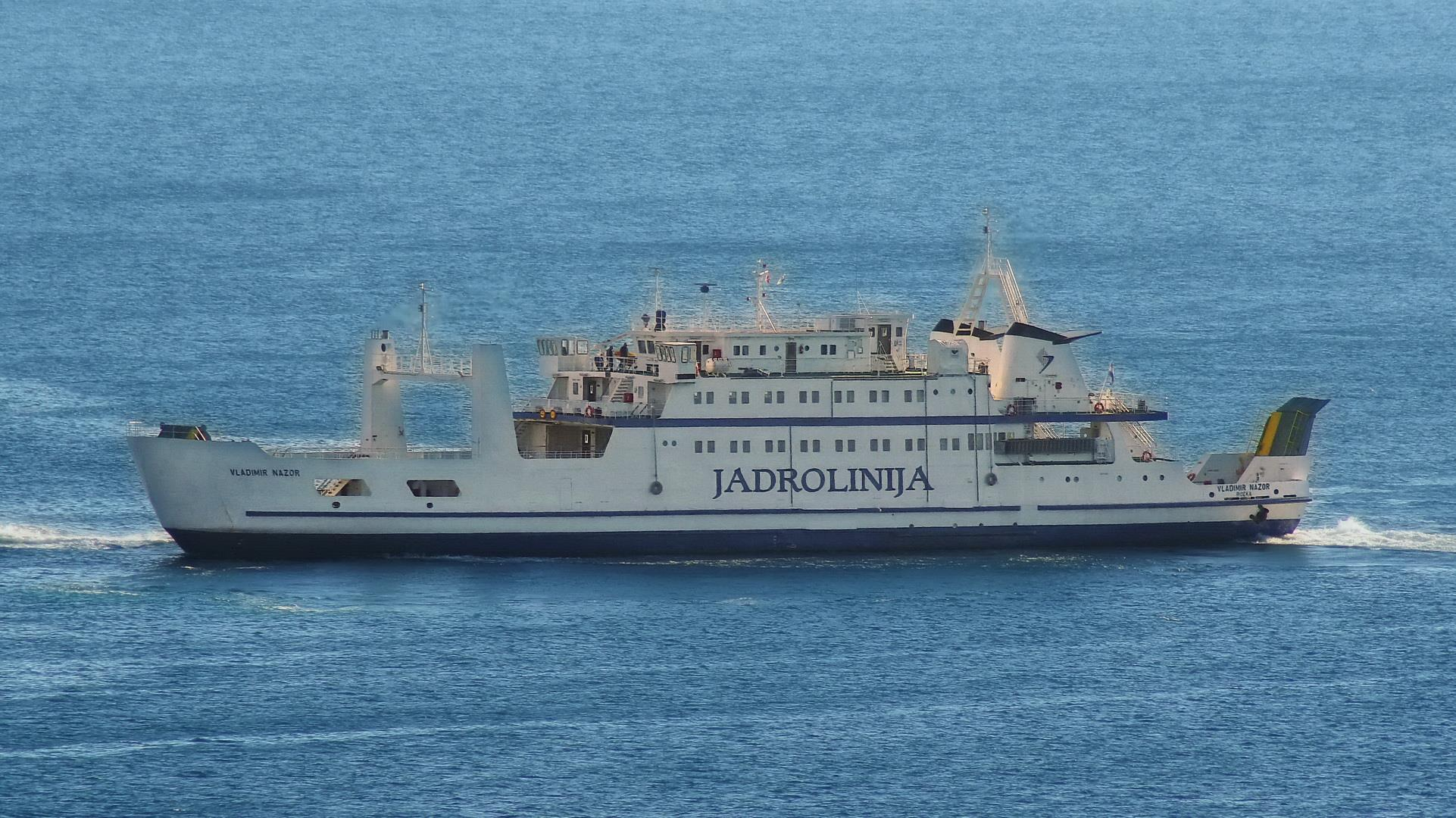 Vladimir Nazor (ship, 1986) IMO 8108406, as seen in Split, Croatia (N43°29'49" E16°25'11") on 2014-10-25 CEST15h50m03s.